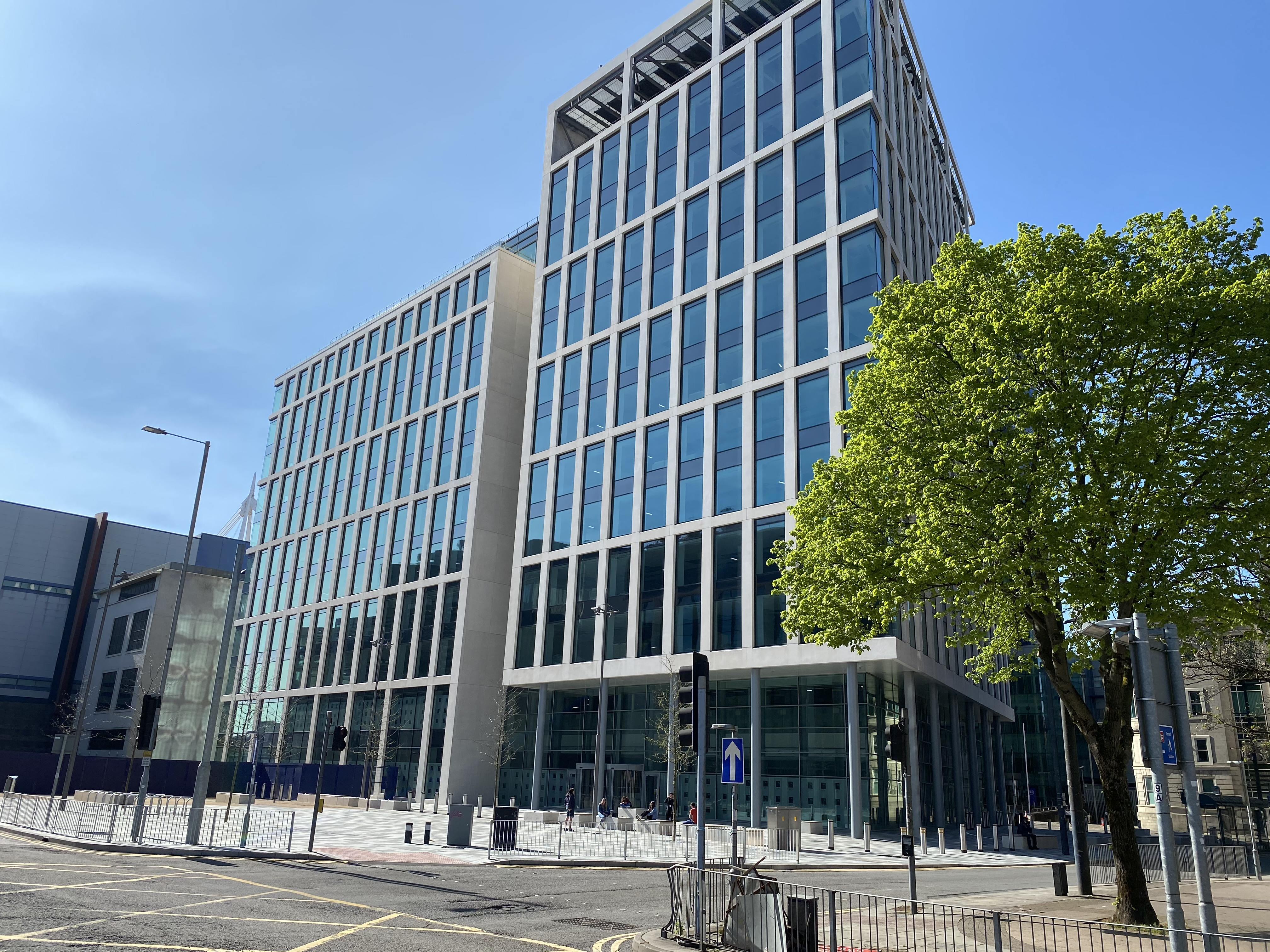 HMRC's Central Square office in Cardiff